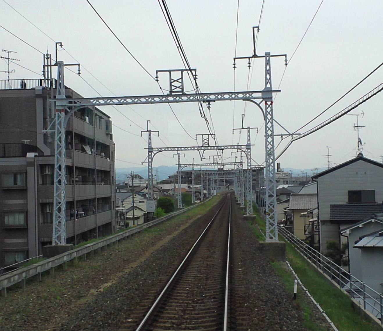 Arashiyama Line of Hankyu Railway, Kyoto Japan